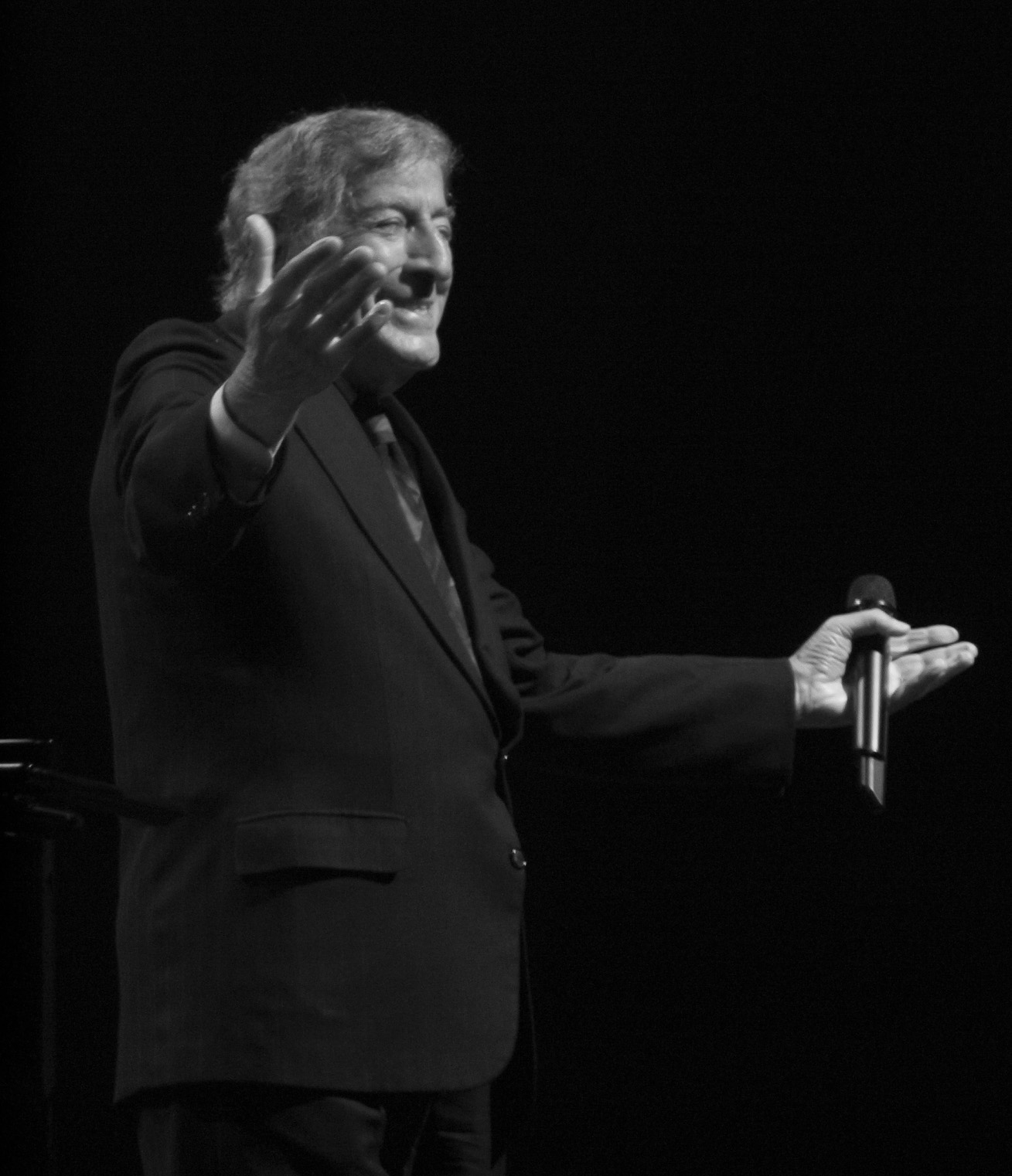 Tony Bennett soaks up the love at the 2012 Monterey (Calif.) Jazz Festival.